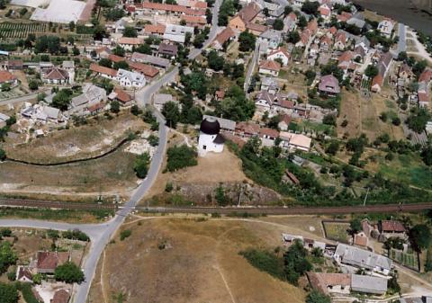 Öskü, Hungary, aerialphotography